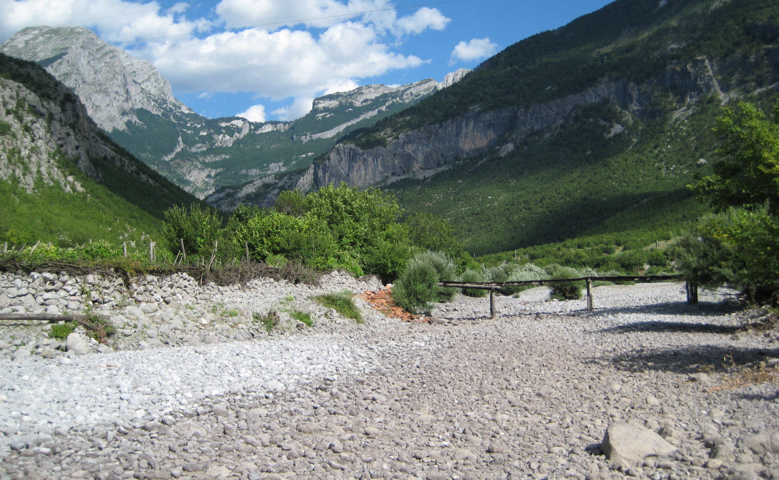 Dry valley of Cemi i Nikçit in Prokletije